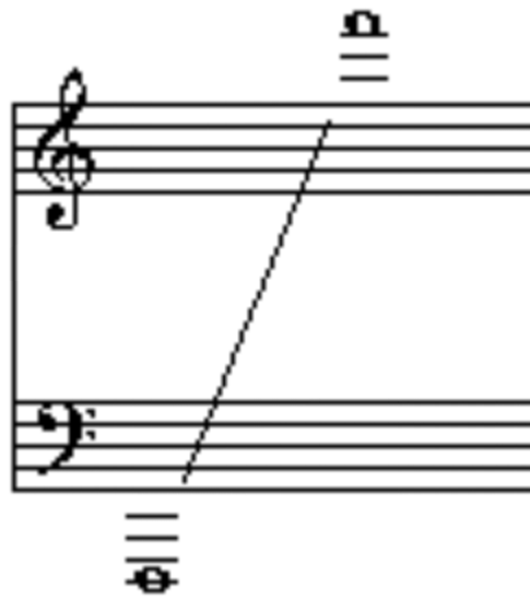 range of harpsichord